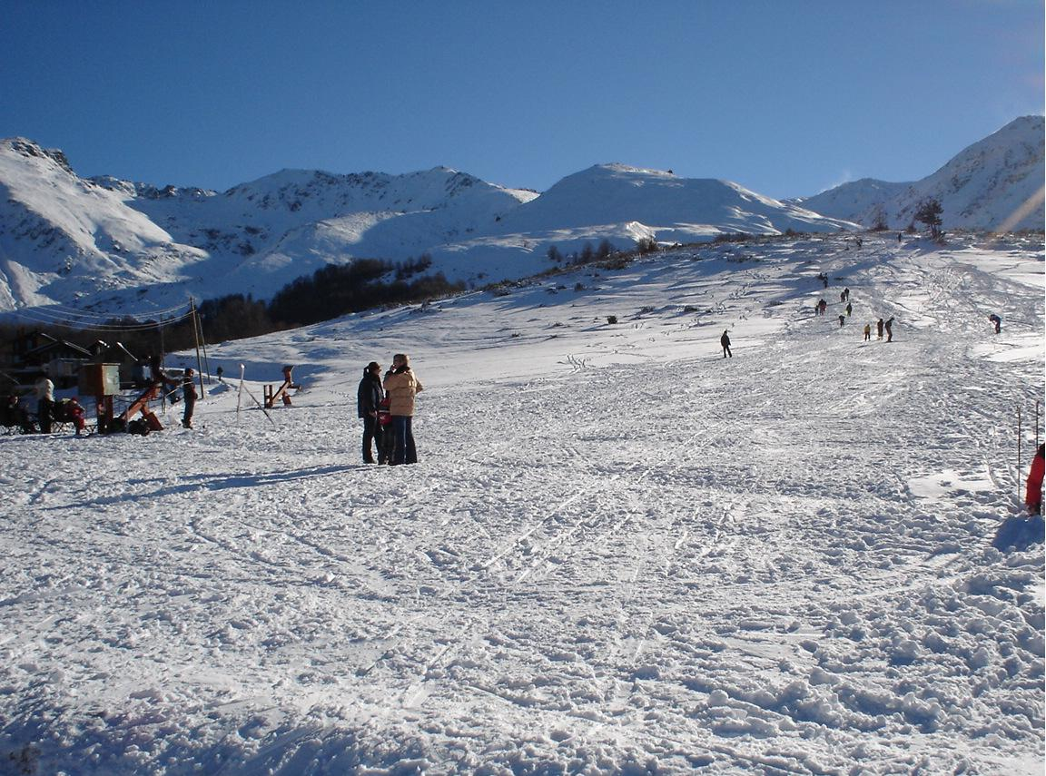 The Shar mountain range